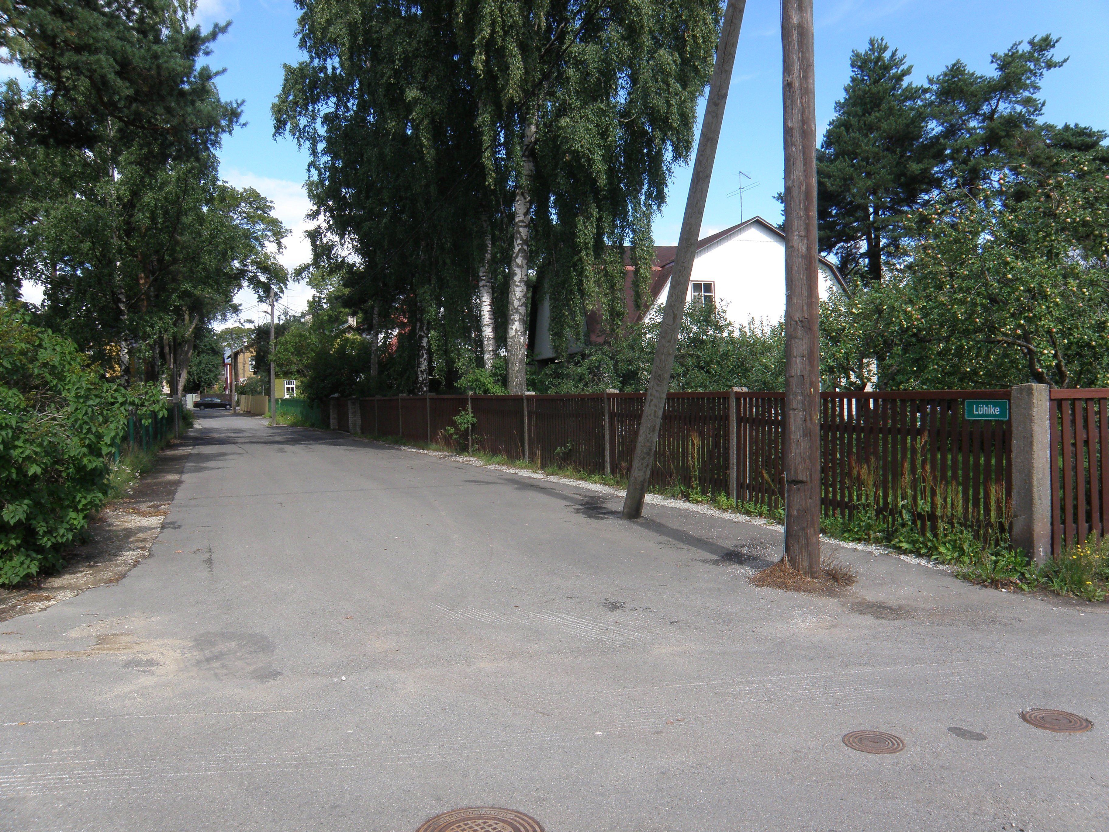 Lühike Street in Tallinn